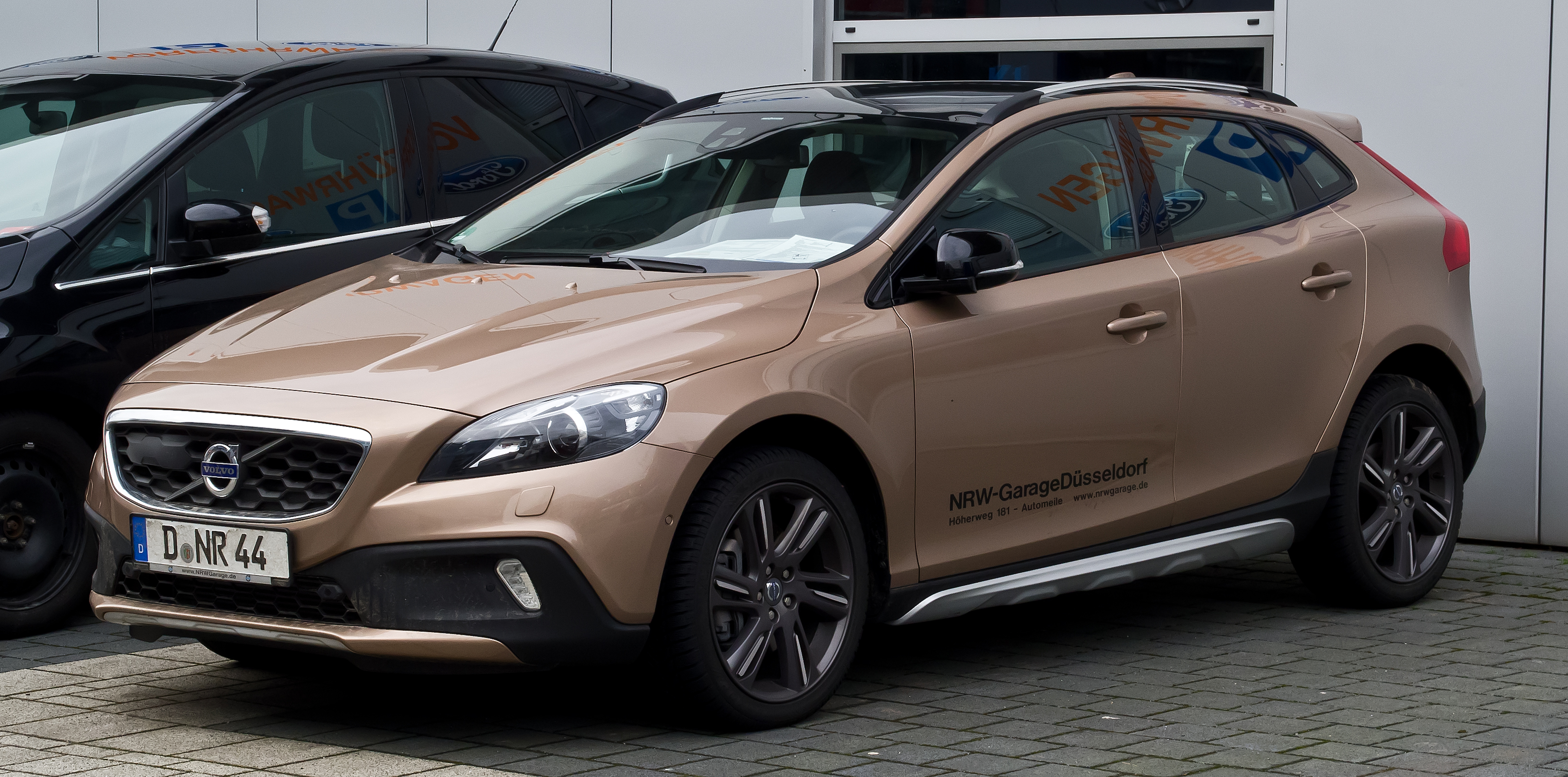 Volvo V40 Cross Country D4 Summum